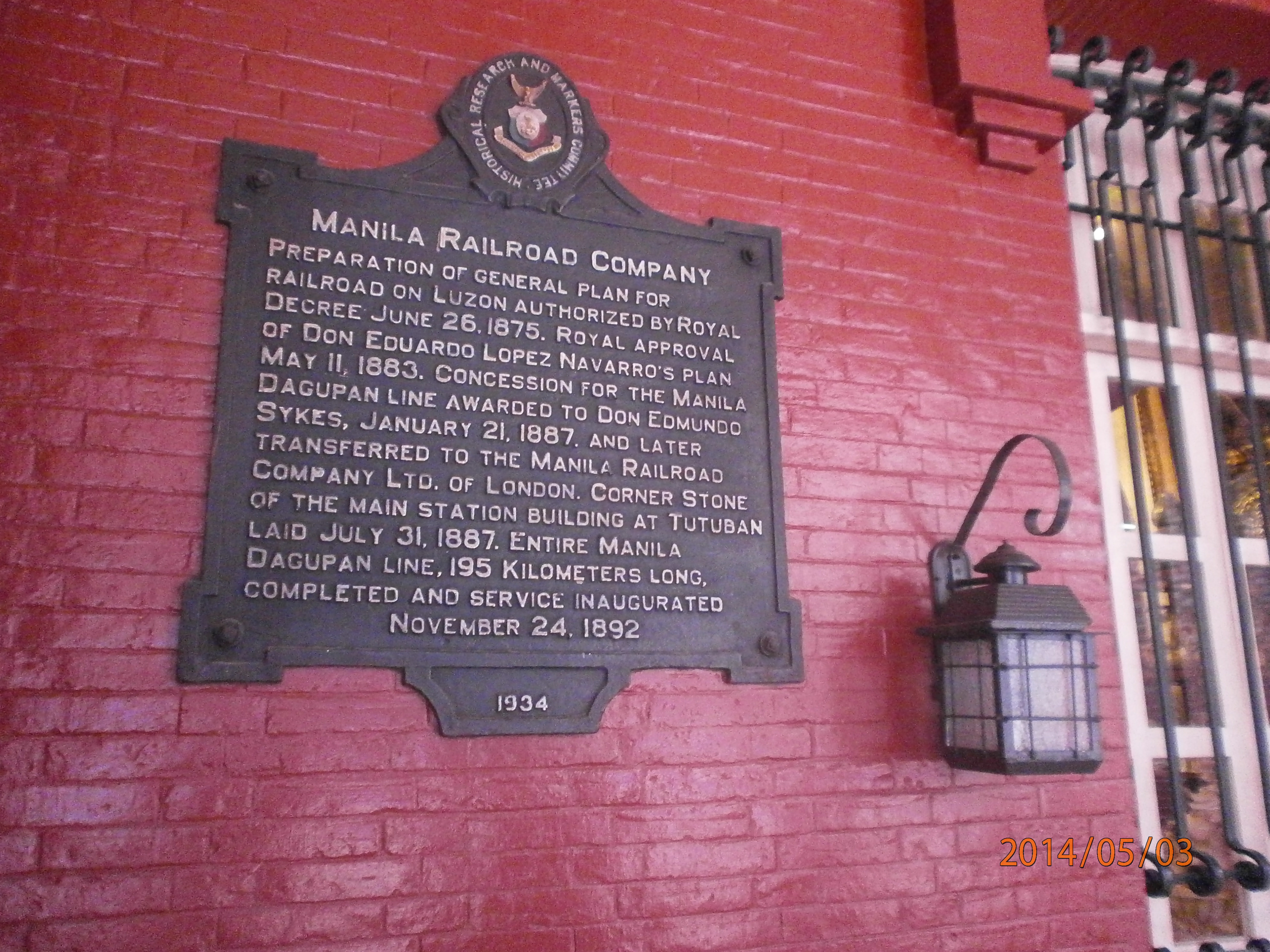 Transportation Building